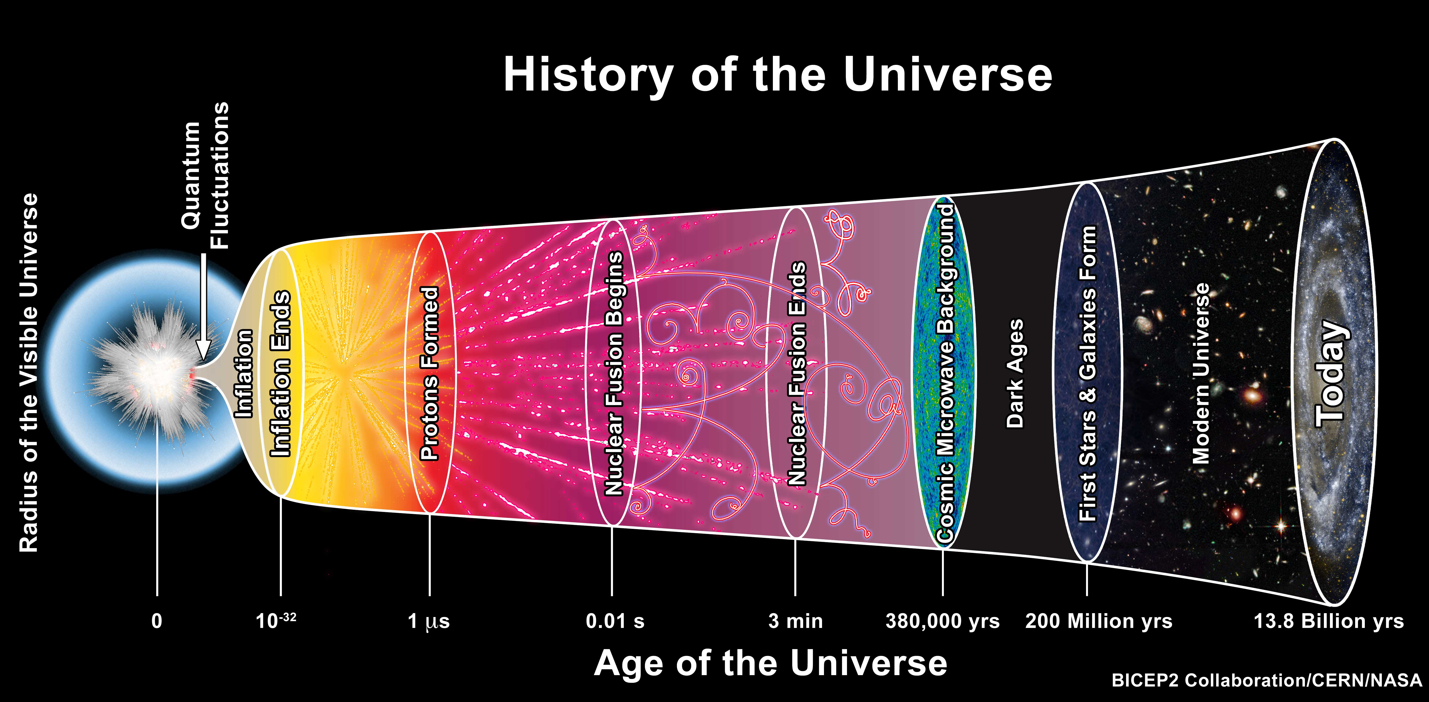 The evolution of the Universe from the big bang to the present.